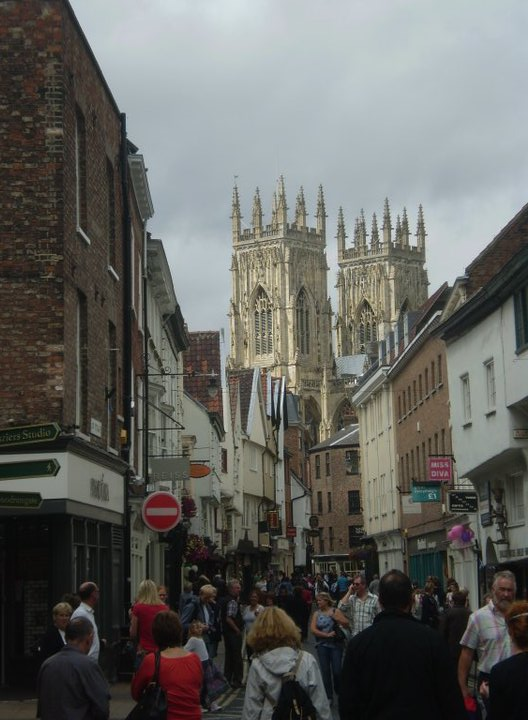 View of Stonegate with York Minster in the Background